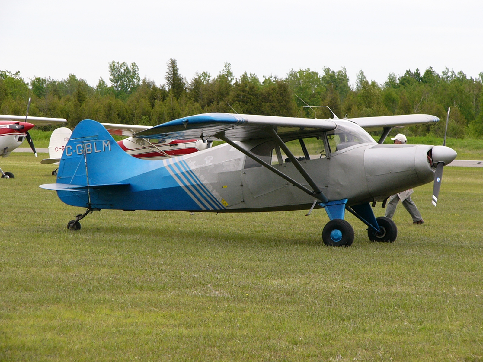 A Maule M-4-210 at the Smiths falls Ontario Fly-in